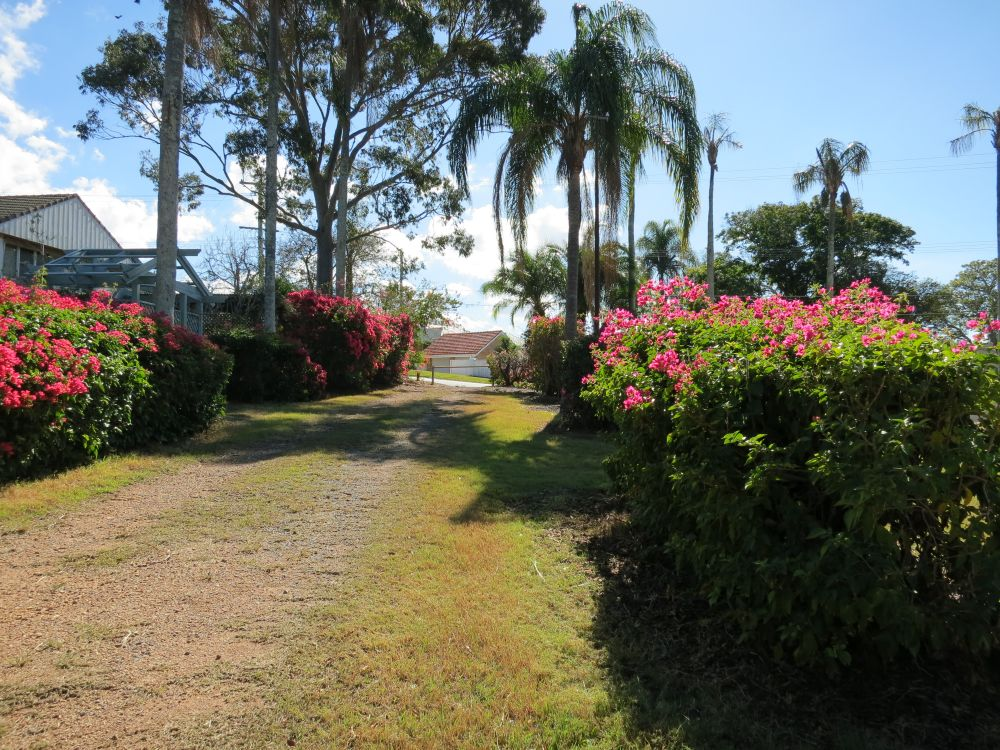 Thomas Park, west boundary (2014)